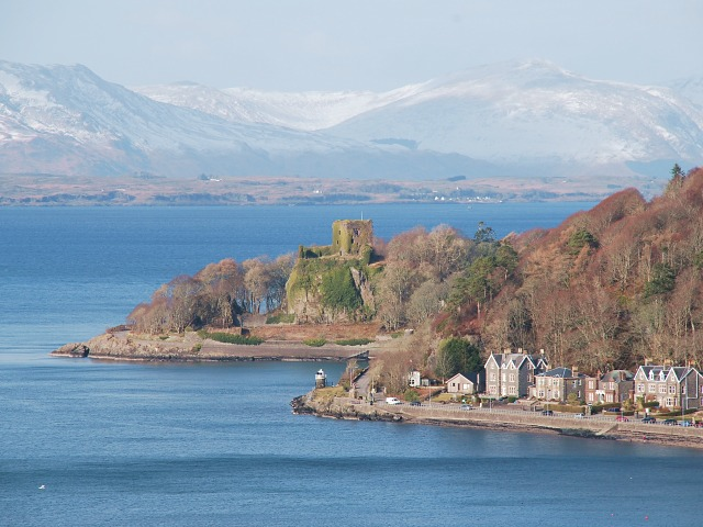 Dunollie Castle from Pulpit Hill Looking across Oban Bay towards Dunollie Castle, which guards the bay. Ardnamurchan in the distance.